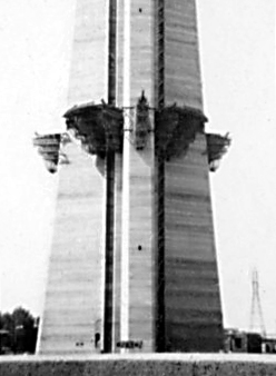 CN Tower under construction, August 1974. Bracket forms are visible, being slowly pulled up to their final position where they created the base of the tower's main pod. View is looking south-west from approximately the corner of Front Street West and Simcoe Street.